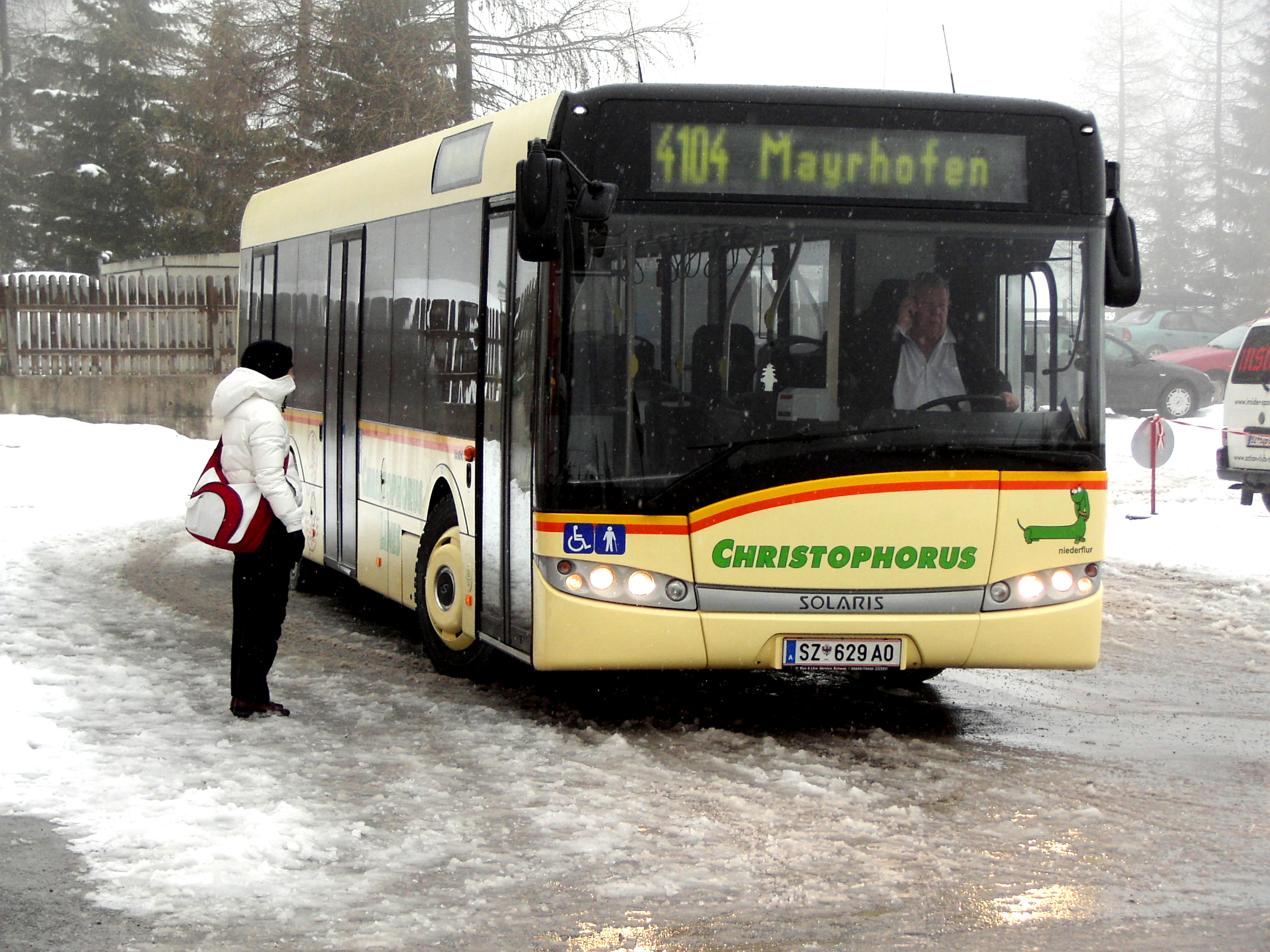 Solaris Urbino 12 Mk3 bus in Mayrhofen, Austria. Built 2006, Christophorus Mayrhofen operator.